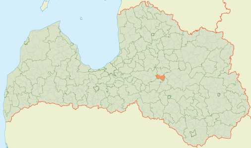 Location of Sausnēja Parish in Latvia